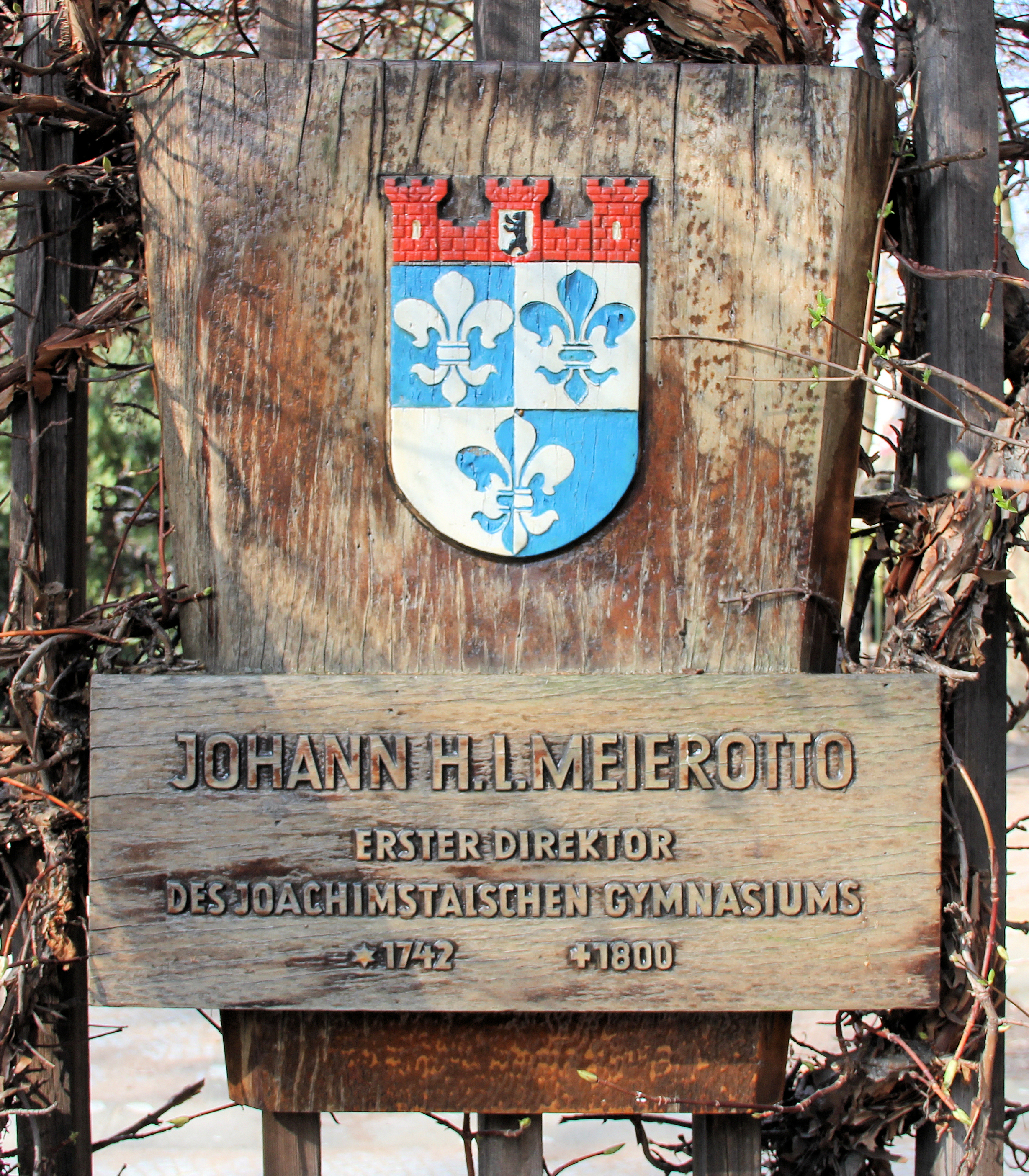 Memorial plaque, Johann Heinrich Ludwig Meierotto, Bundesallee 12a, Berlin-Wilmersdorf, Germany Koordinate:52°29′52″N 13°19′49″E / 52.49778°N 13.33028°E